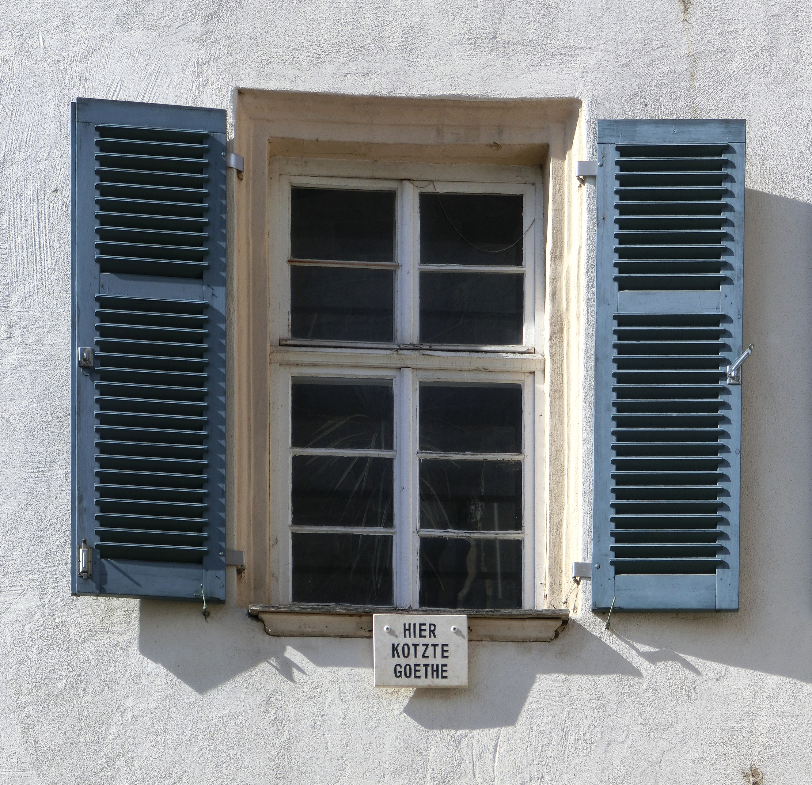 Sign with the inscription „Hier kotzte Goethe“ („Here Goethe vomited“) at the so-called Martinianum, Tübingen.